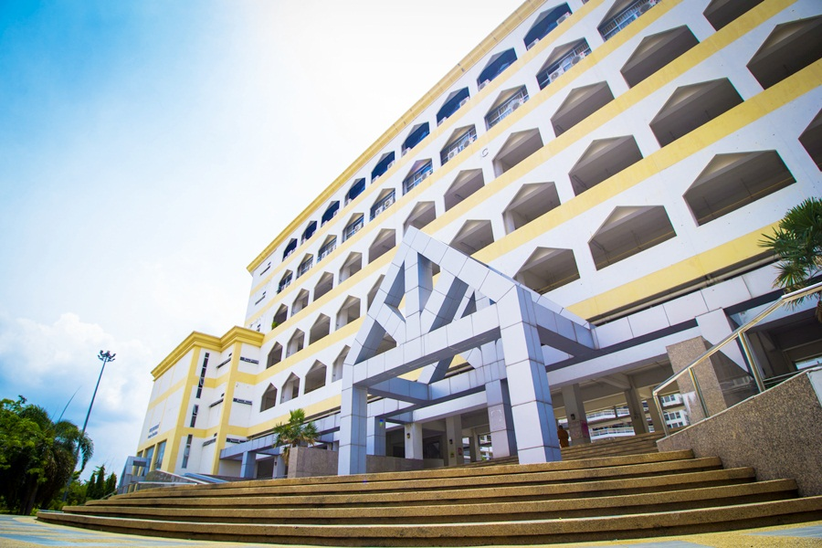 อาคารเรียนรวม